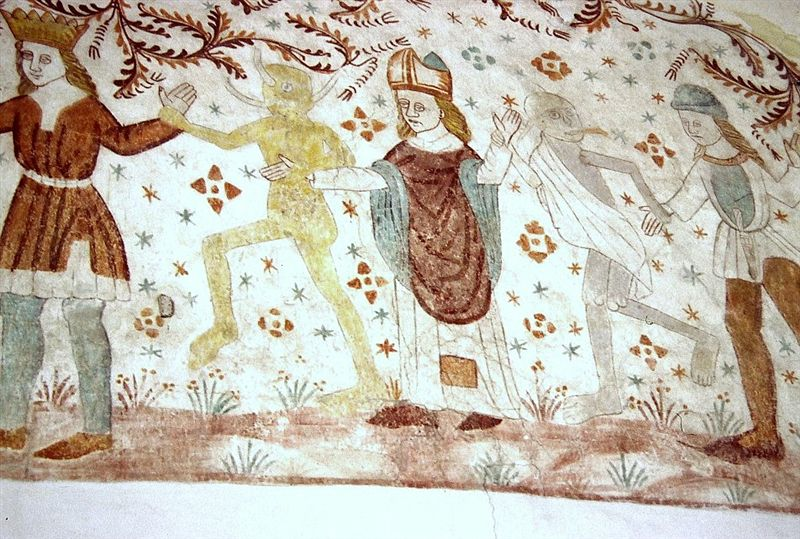 Frescos of the Master of Elmelunde, 14th century. Dance Macabre in Nørre Alslev church.